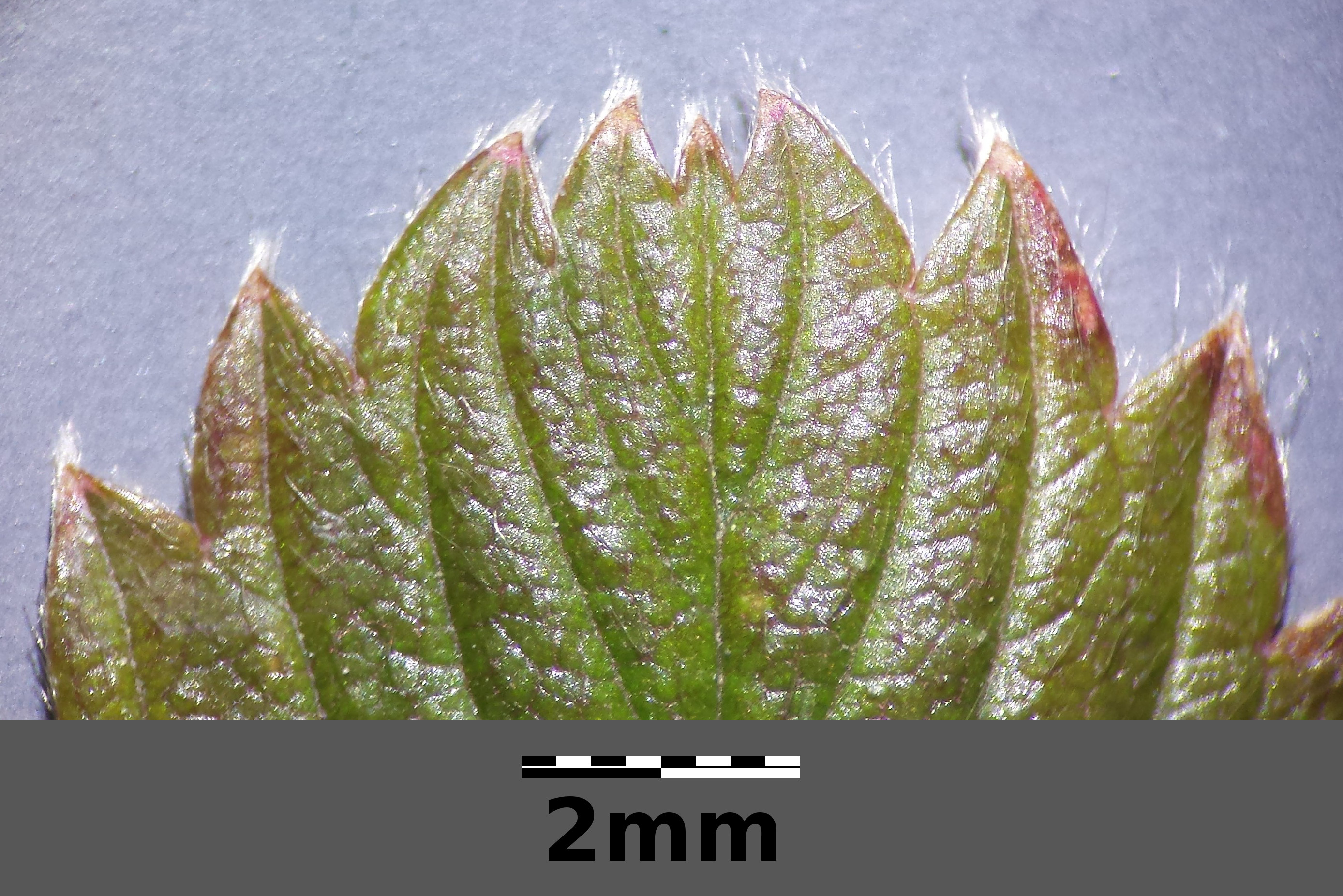 Apex of a leaflet, the tooth at the end is shorter than its neighbours Taxonym: Fragaria viridis ss Fischer et al. EfÖLS 2008 ISBN 978-3-85474-187-9 Location: near Niederhollabrunn, district Korneuburg, Lower Austria - ca. 350 m a.s.l. Habitat: semi-dry grasslands